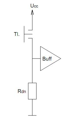 connect pull-down resistor with buttons